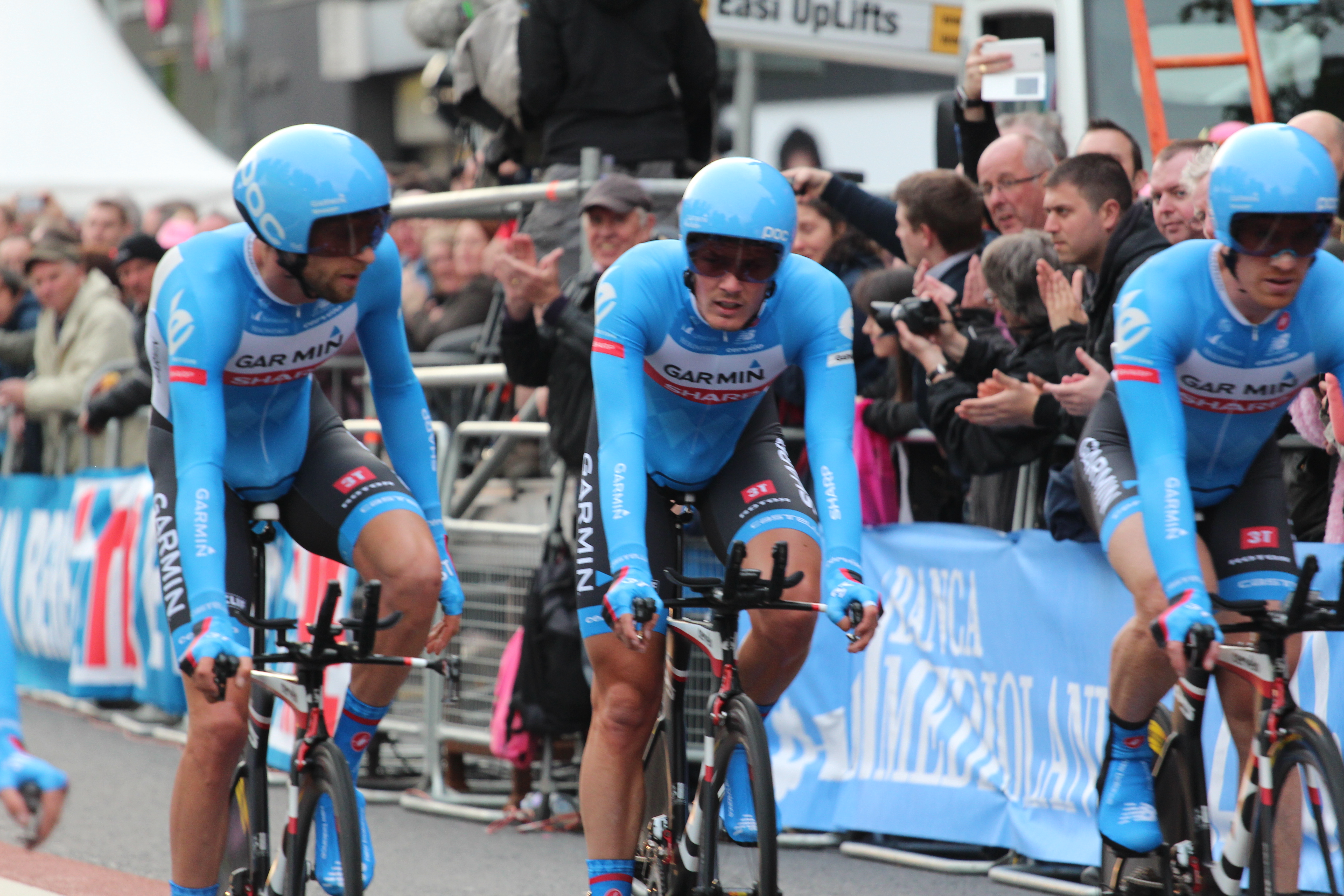 Giro d'Italia 2014, Day 1, Time Trials, Belfast, 9 May 2014. Garmin Sharp at finish line in Donegall Square North, Belfast